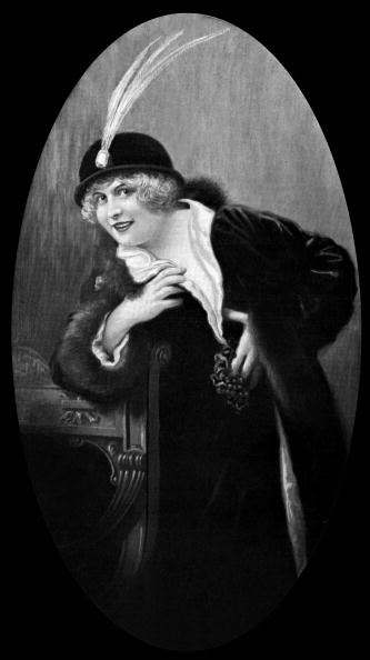 French actress Marcelle Yrven in 1914